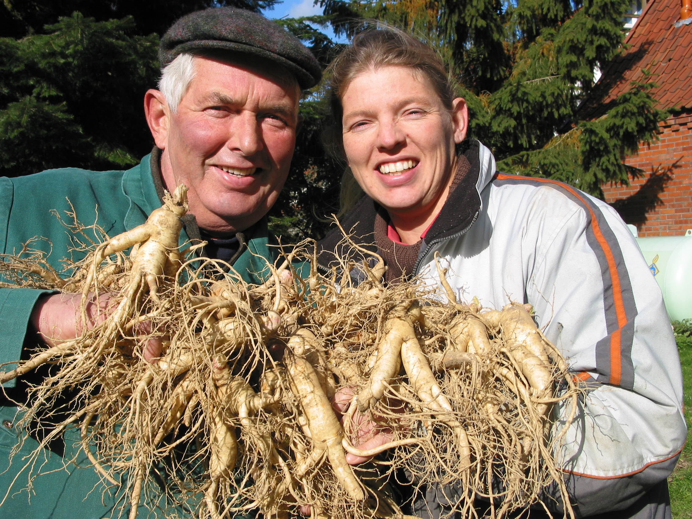 Ginseng harvest in Walsrode, Germany